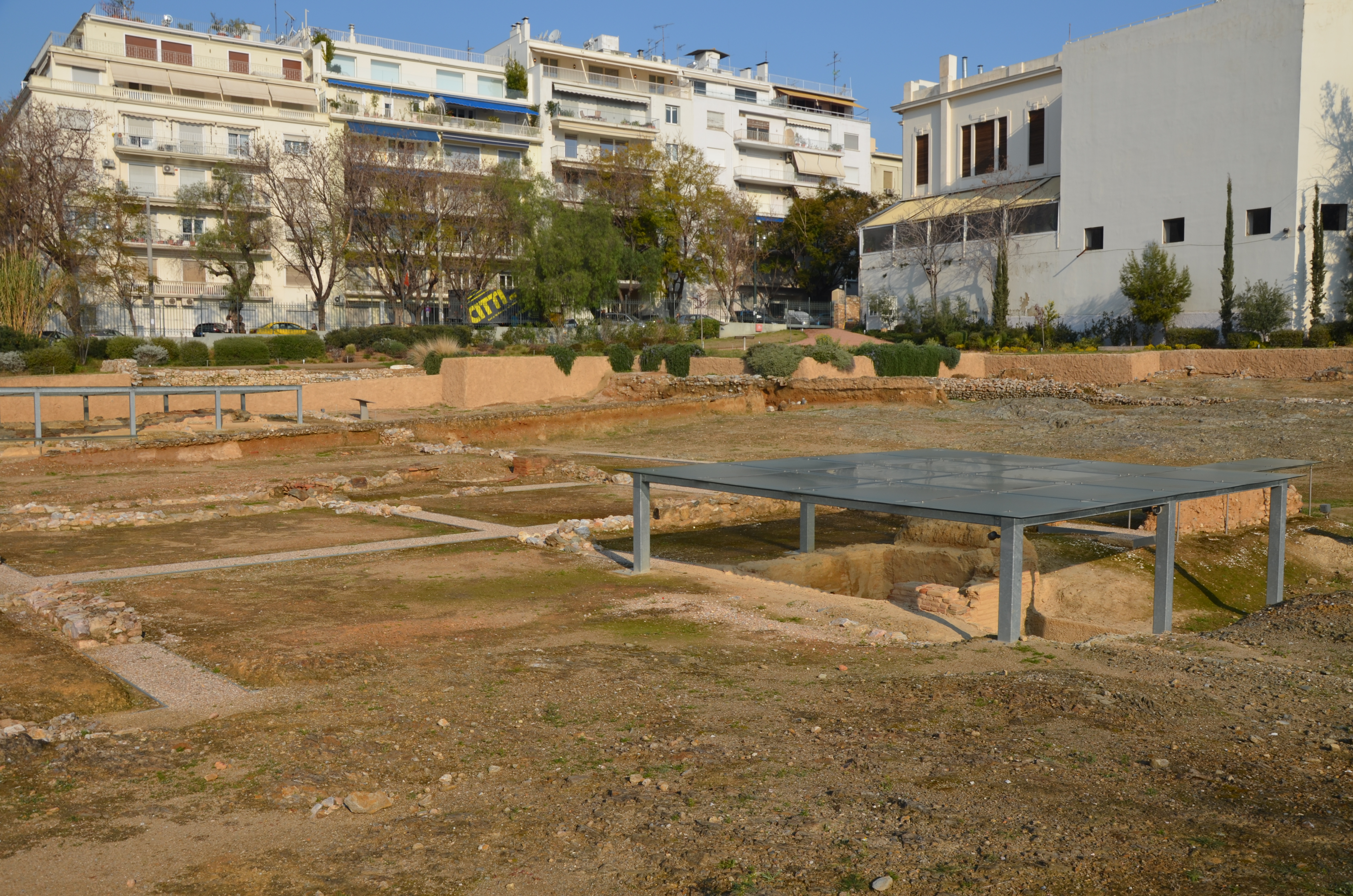 During a 1996 excavation to clear space for Athens’ new Museum of Modern Art, the remains of Aristotle’s Lyceum were uncovered. Descriptions from the works of ancient philosophers hint at the location of the grounds, speculated to be somewhere just outside the eastern boundary of ancient Athens, near the rivers Ilissos and Eridanos, and close to Lycabettus Hill. The excavation site is located in downtown Athens, by the junction of Rigillis and Vasilissis Sofias Streets, next to the Athens War Museum and the National Conservatory. The first excavations revealed a gymnasium and wrestling area, but further work has uncovered the majority of what is believed to have withstood the erosion caused to the region by nearby architecture’s placement and drainage. The buildings are definitely those of the original Lyceum, as their foundations lie on the bedrock and there are no other strata further below. Upon realizing the magnitude of the discovery, contingency plans were made for a nearby construction of the Art Museum so that it could be combined with a Lyceum outdoor museum and give visitors easy access to both. There are plans for canopies to be placed over the Lyceum remains, and the area was opened to the public in 2009. (Classical)#Aristotle's_Lyceum_today